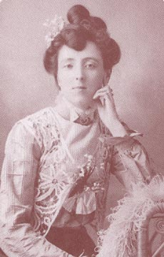 Lucy Maud Montgomery (1874-1942), Canadian writer